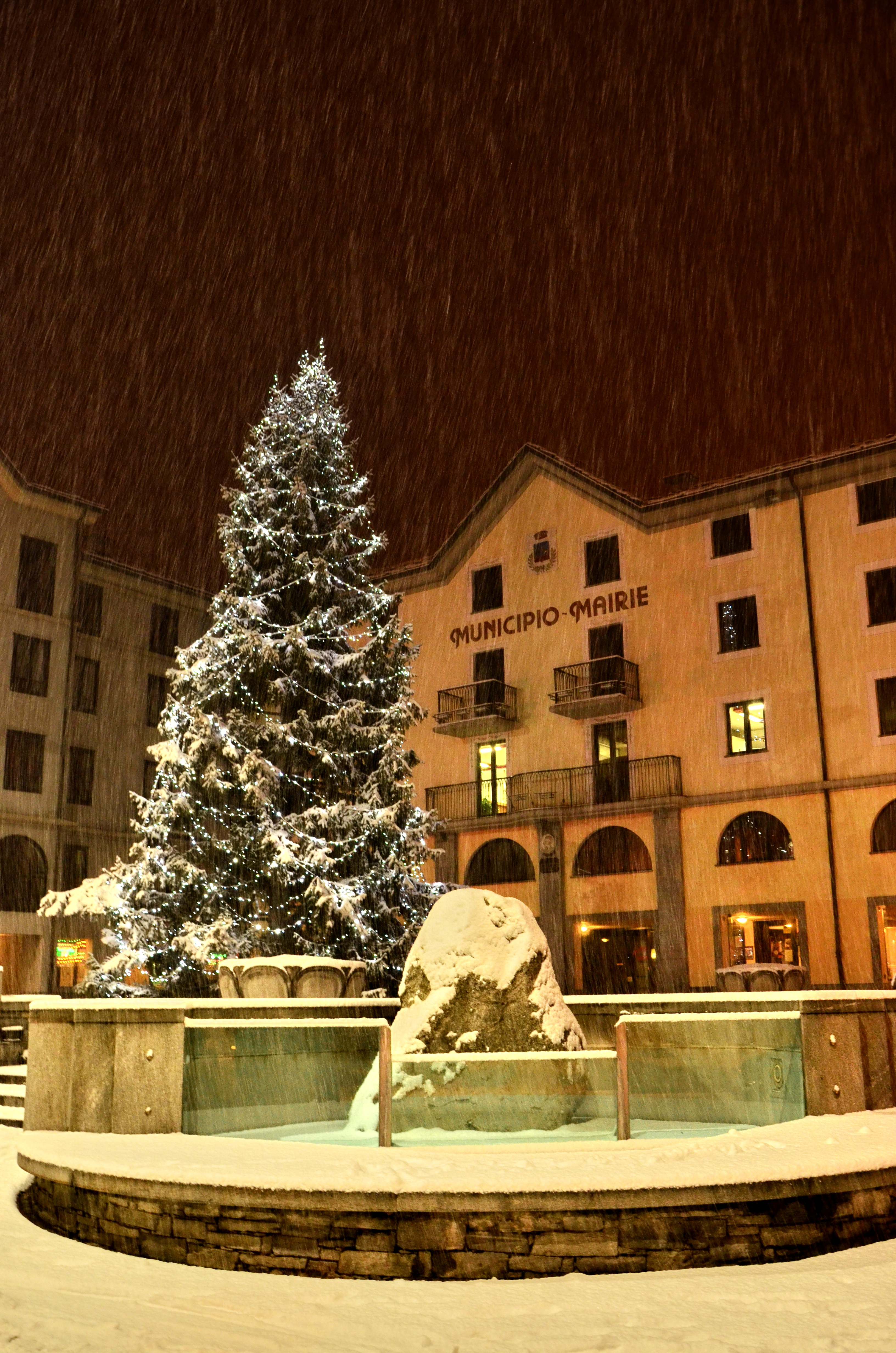 Pré-Saint-Didier Municipio